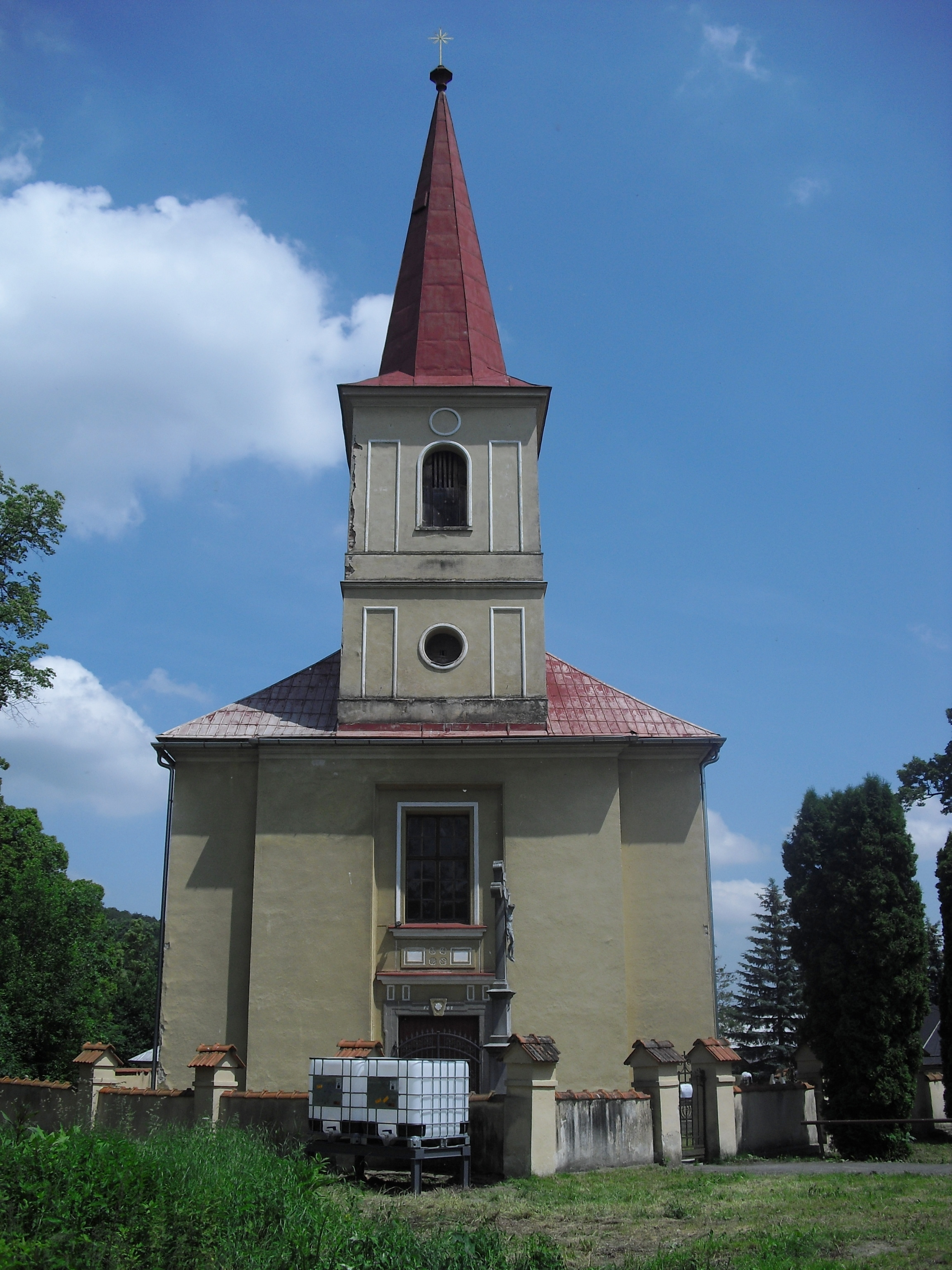 Fulnek, Nový Jičín District, Czech Republic, part Vlkovice. Church of St. Nicholas in the northern part of the village. The present church was built in 1807.